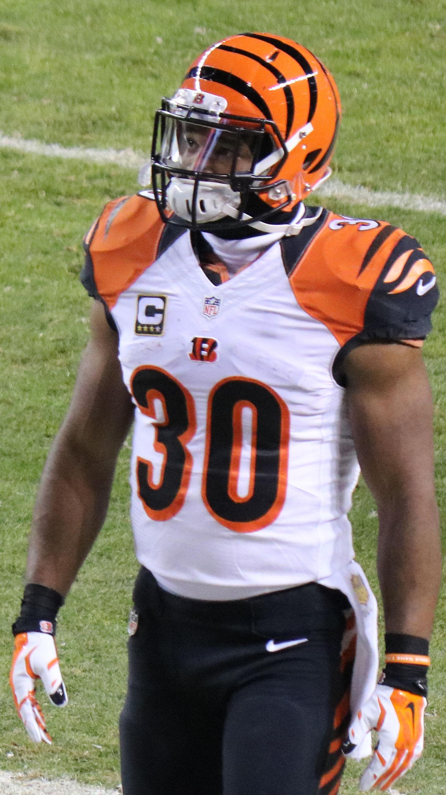 Cedric Peerman, a player on the National Football League.